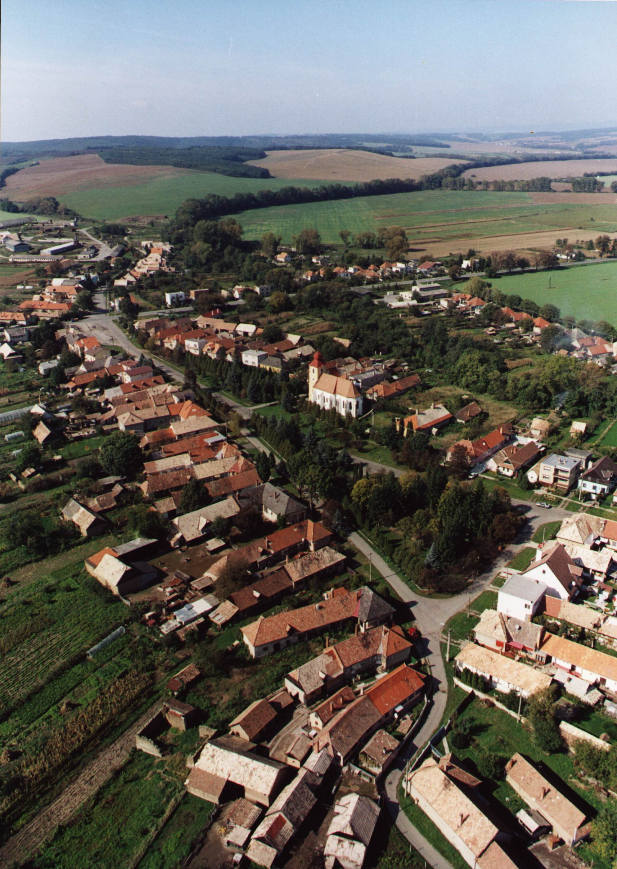 Hokovce from the sky